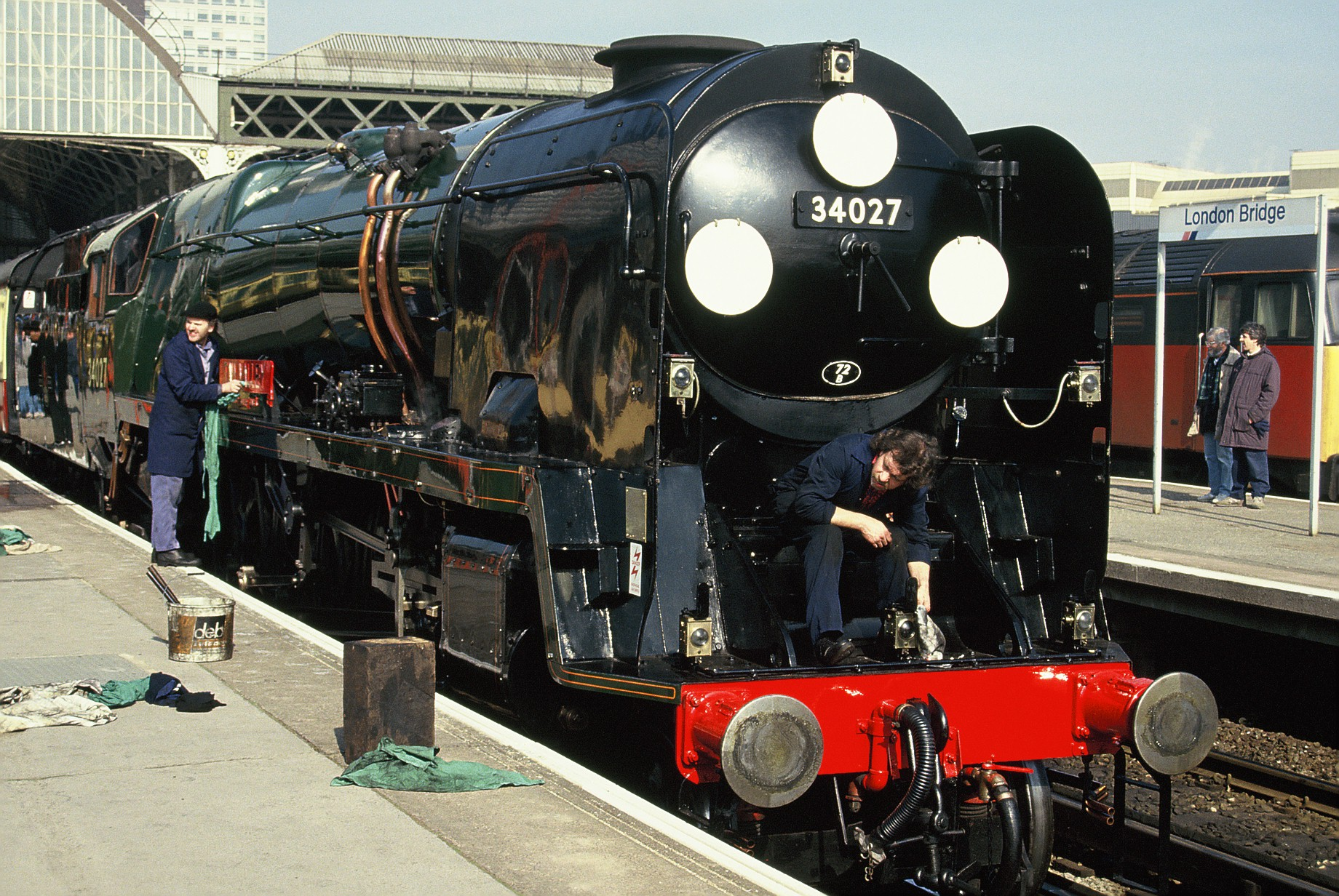 Network SouthEast Easter Parade 1991 at London Bridge Lower Level terminus station 30th & 31st March 1991. West Country Class No. 34027 Taw Valley".